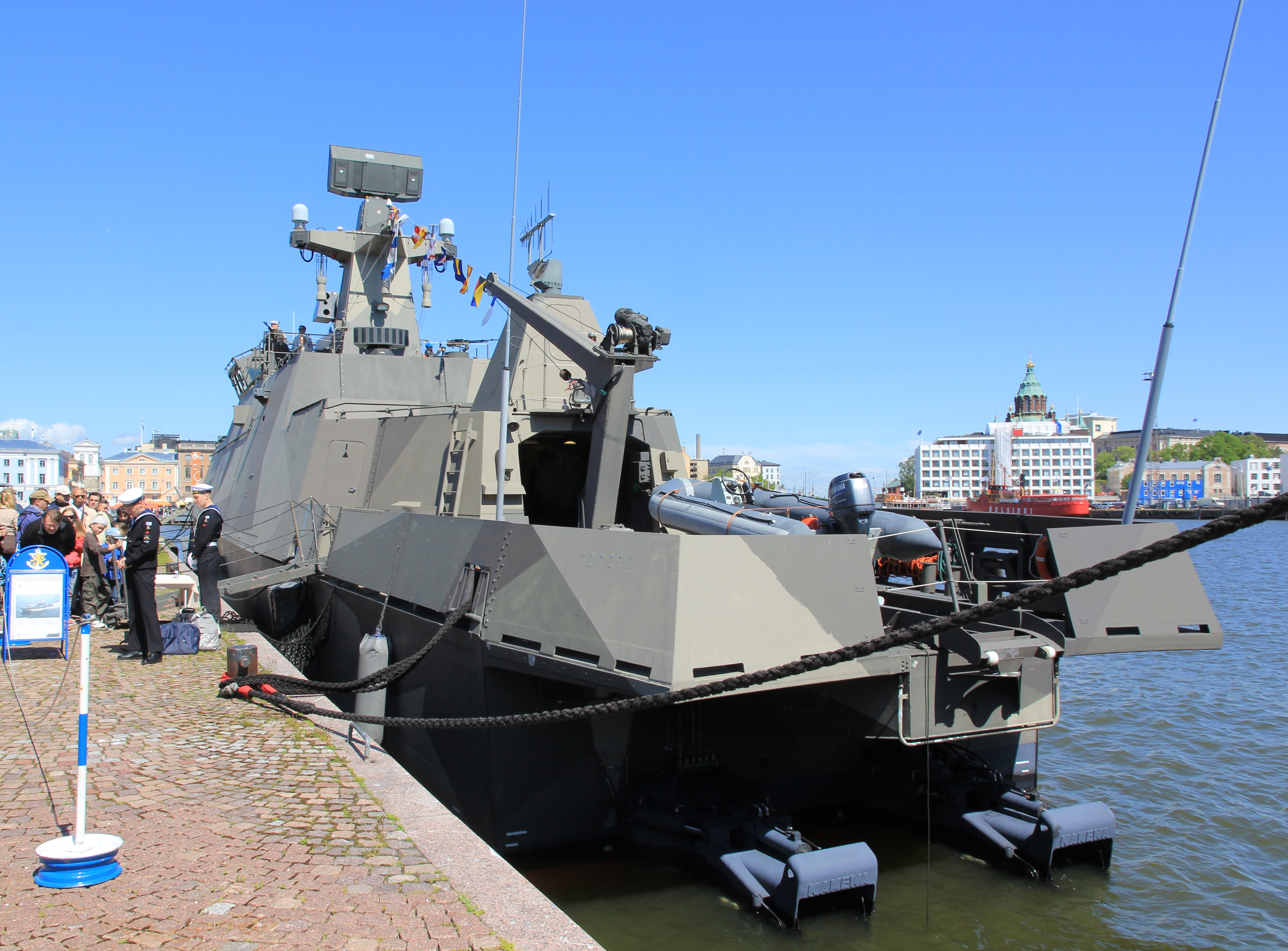 Stern of the Finnish navy missile boat Tornio (81) in Helsinki South harbour as part of the Finnish Defence Force Flag day celebrations.